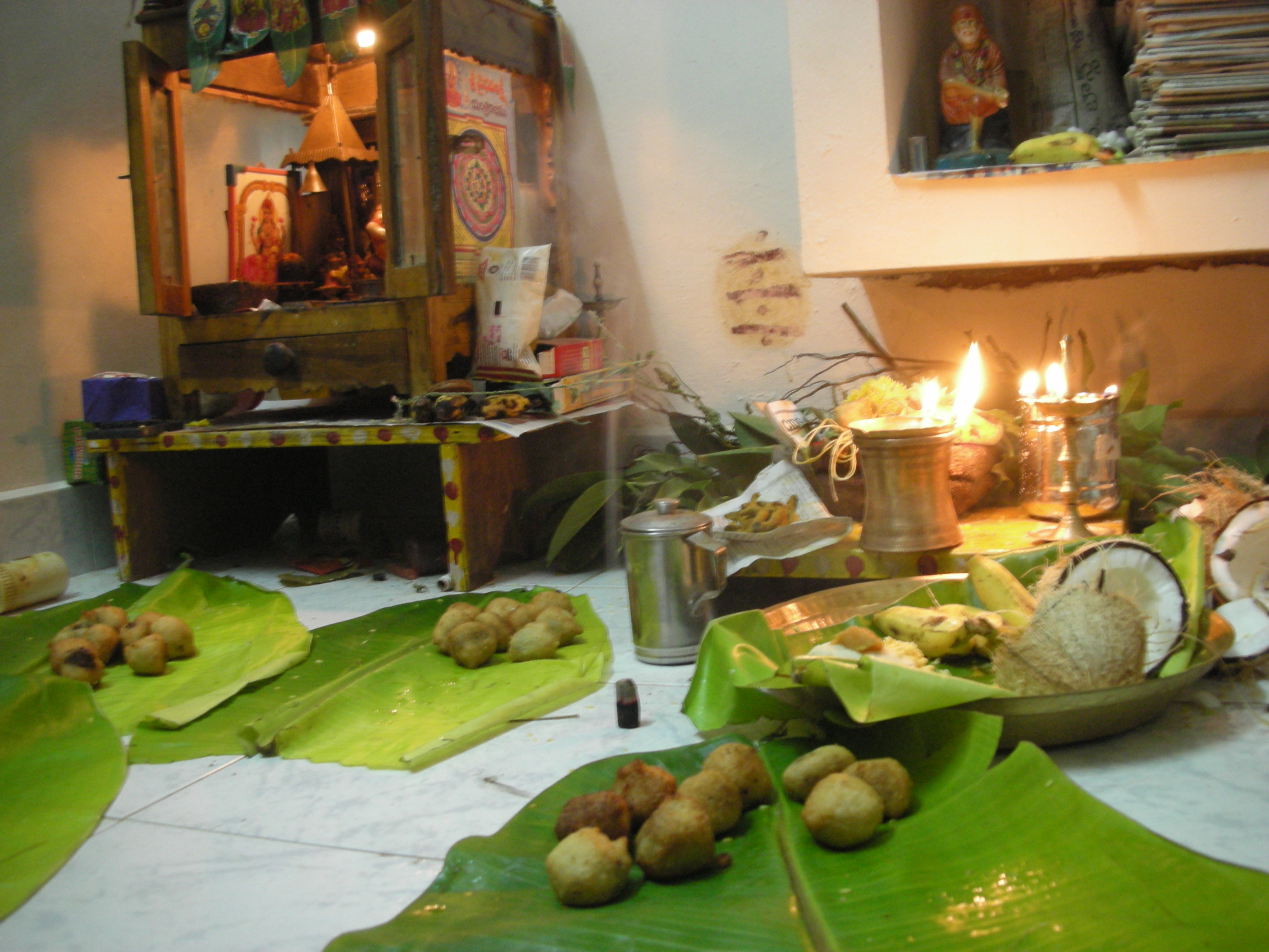 A Hindu puja. A house altar in the corner is surrounded by banana leaves carrying food offerings, while lamps are lit next to it. Original caption: karika nomulu